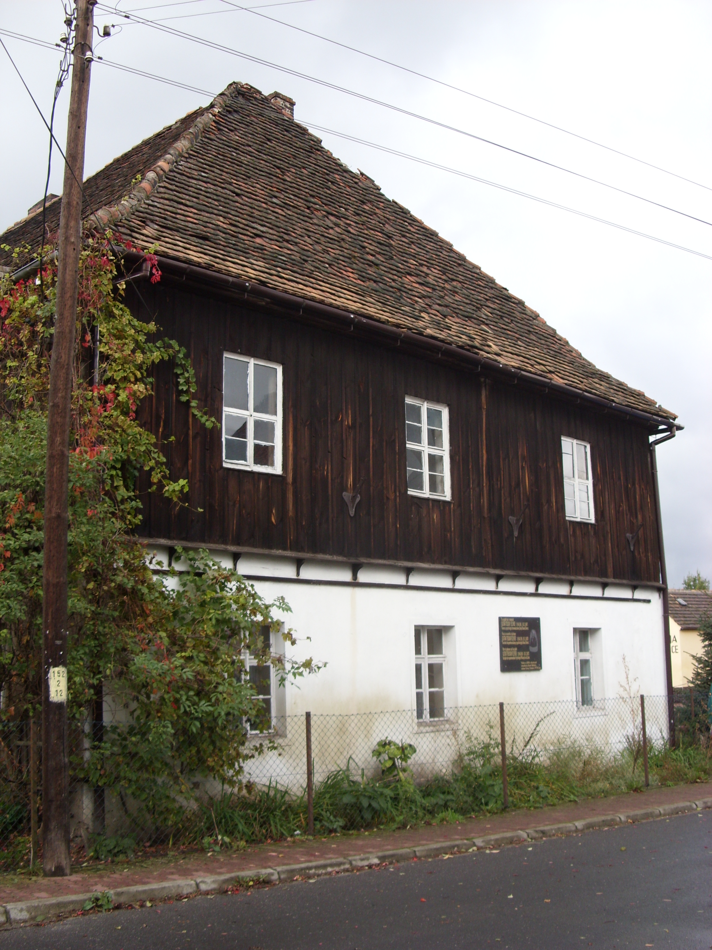 Birthplace of Gustav Theodor Fechner in Żarki Wielkie, Poland.